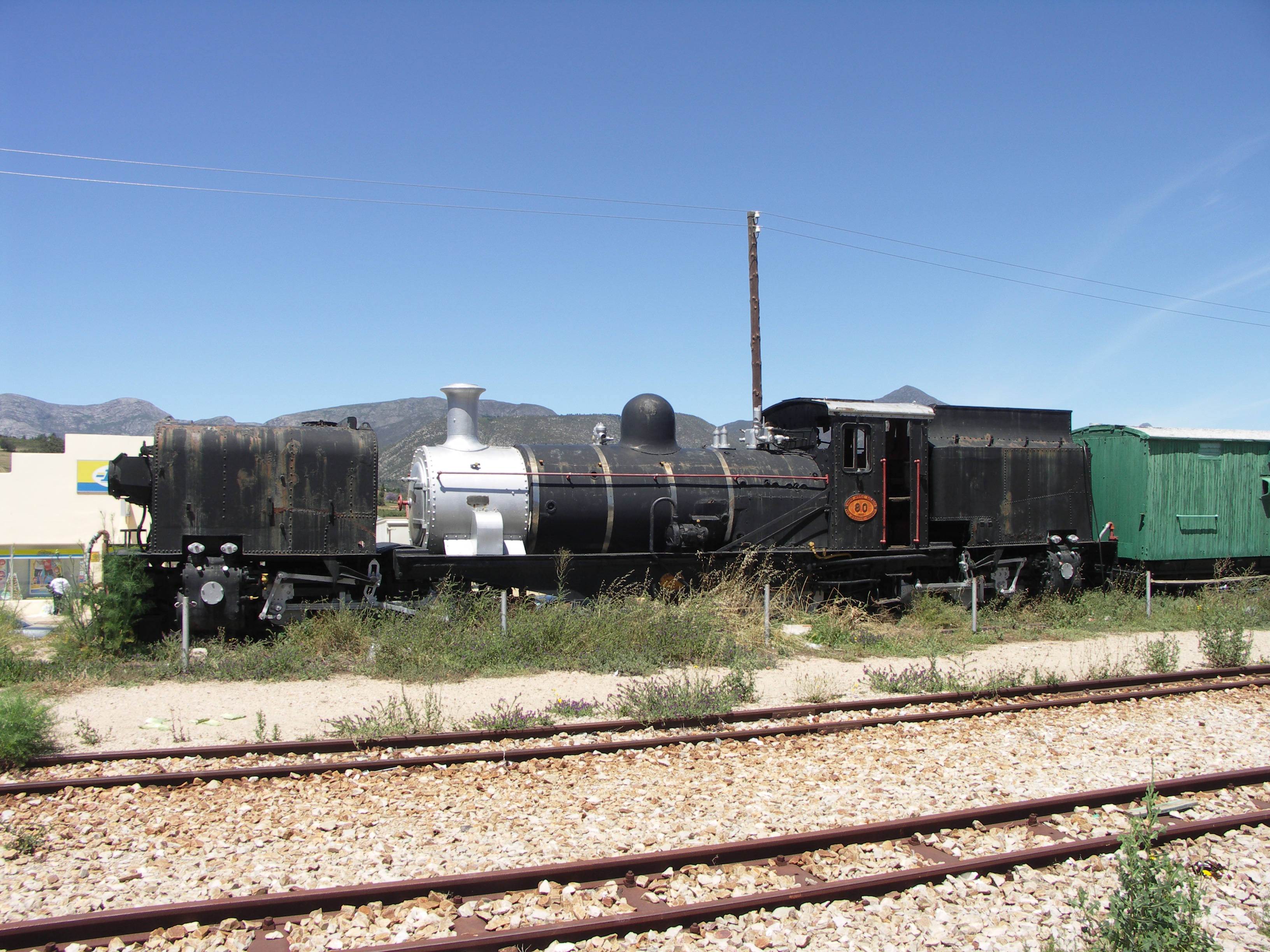 SAR NGG class 13 No. 80. Build in 1928 by Hanomag in Germany. Withdrawn from service in 1975. Weight: 62.9 ton, Purchase price R9507.98. Hanomag Nr. 10632. Placed on permanent display on 25 February 1977 in Joubertina, Eastern Cape, South Africa.